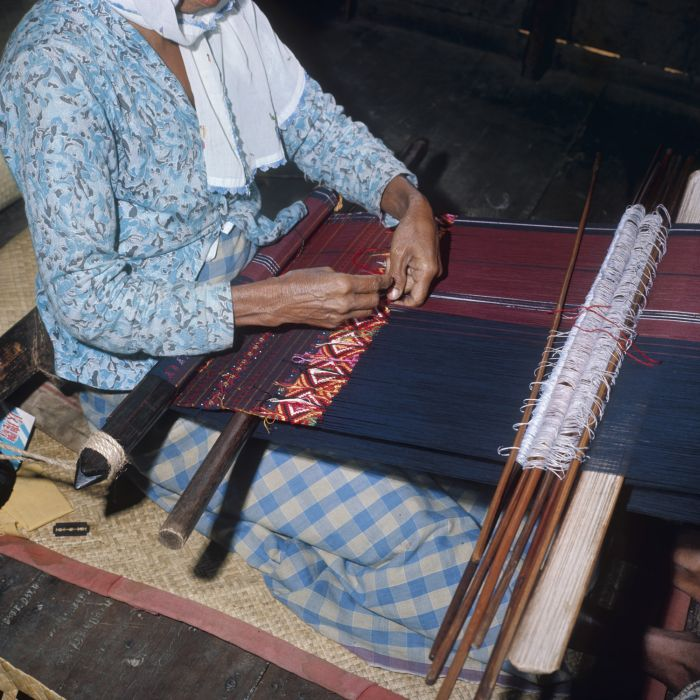 A weaver with her weaving loom